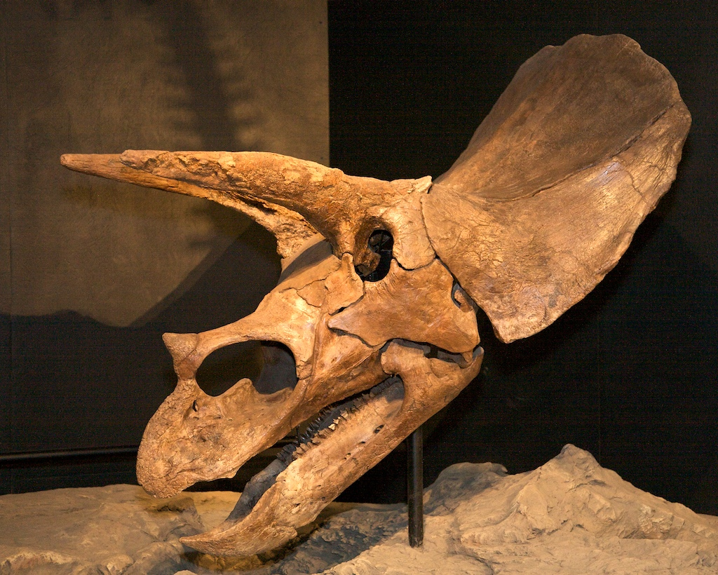 Horned dinosaur ceratopsian, Triceratops (Cretaceous, Hell Creek Formation, Corson County, South Dakota) HMNS1082 Triceratops was the largest of horned dinosaurs and lived at the very end of the Cretaceous Period, shortly before the extinction of all dinosaurs approximately 65 million years ago. Triceratops probably used its formidable array of frill and horns for protection against large contemporary predators such as Tyrannosaurus rex. Triceratops may also have engaged in battles with others of its species, perhaps to establish sexual dominance much as some living animals with horns and antlers do today. Wikipedia Loves Art at the Houston Museum of Natural Science This photo of item # [1] at the Houston Museum of Natural Science was contributed under the team name "etee_in_Space_Ceetee" as part of the Wikipedia Loves Art project in February 2009. Houston Museum of Natural Science The original photograph on Flickr was taken by etee—please add a comment to the original Flickr page whenever a use has been made on Wikipedia or another project. Project galleries on Flickr: this institution, this team